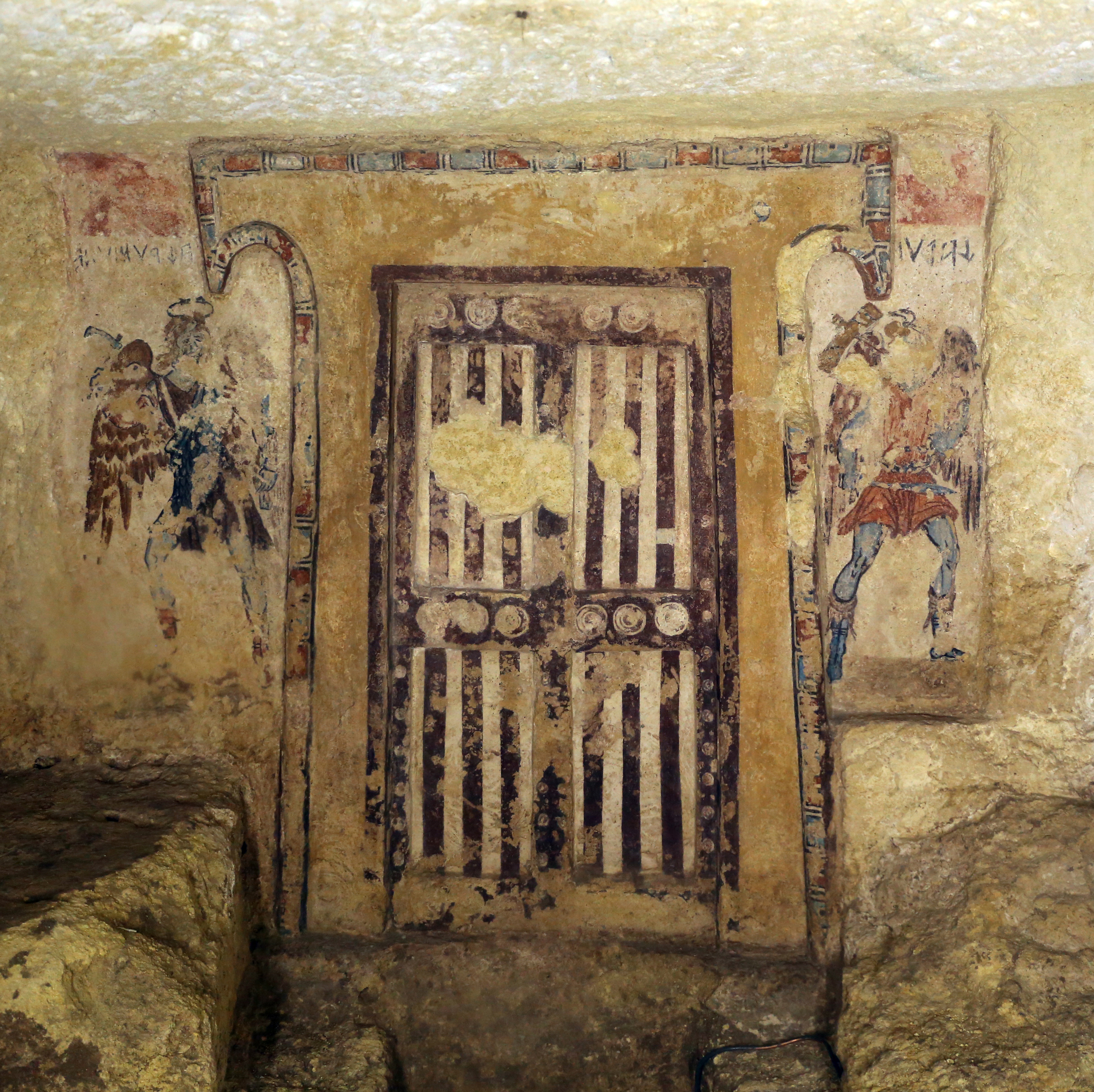 Necropoli dei Monterozzi (Tarquinia)